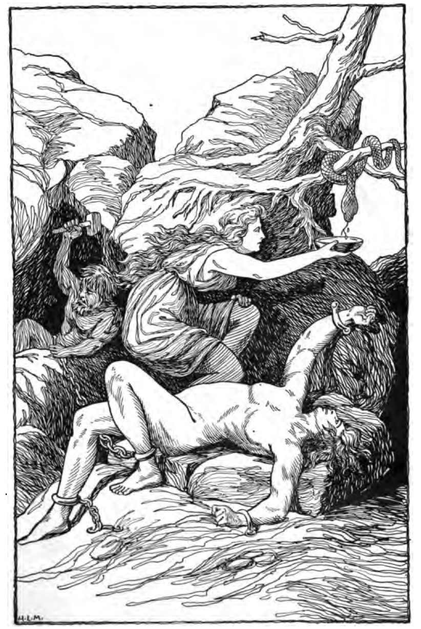 Captioned as "The Punishment of Loki". Sigyn holds a bowl to catch the venomous drops that drip over Loki.